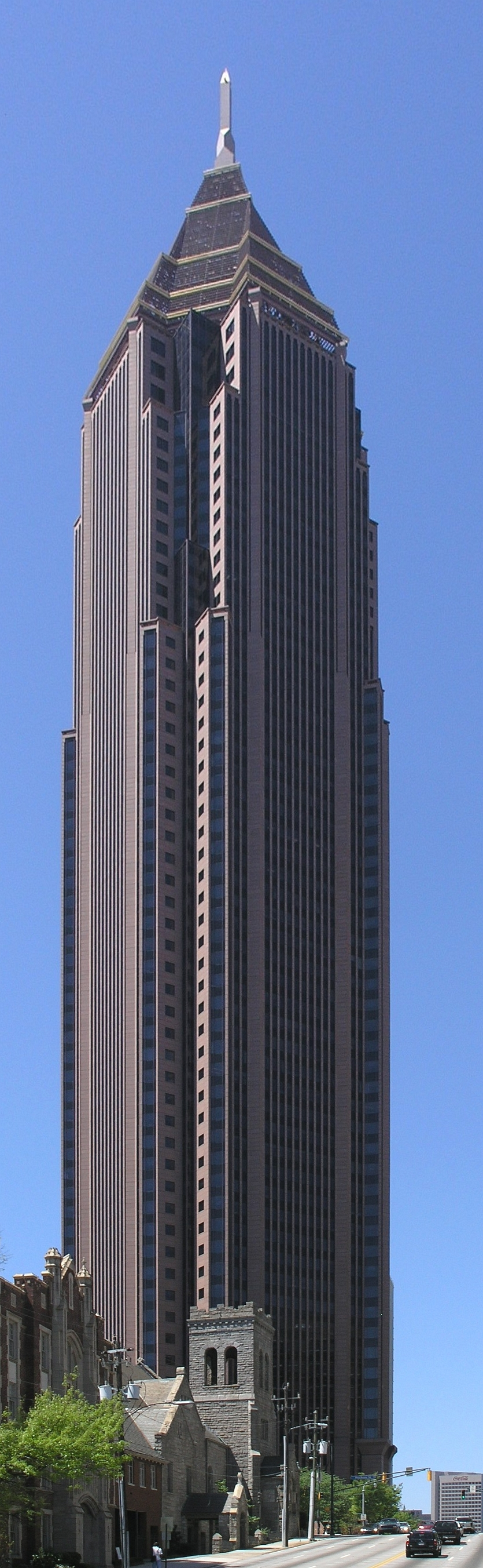 Photo taken in Atlanta area